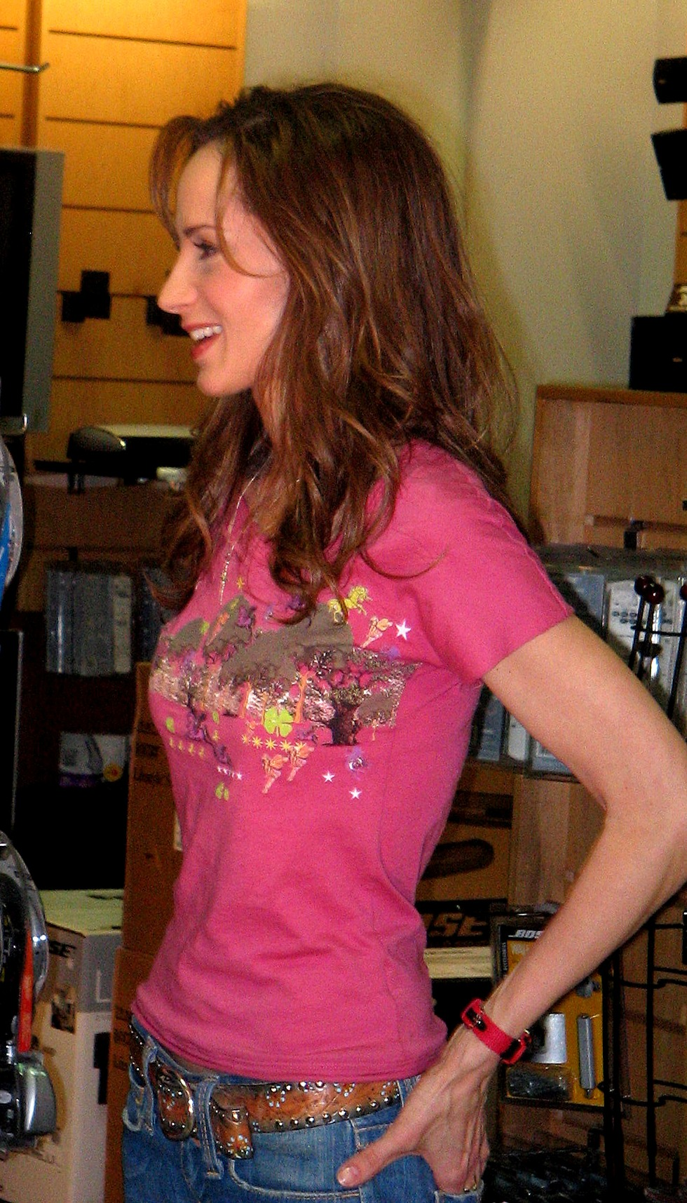 Chely Wright in 2005.